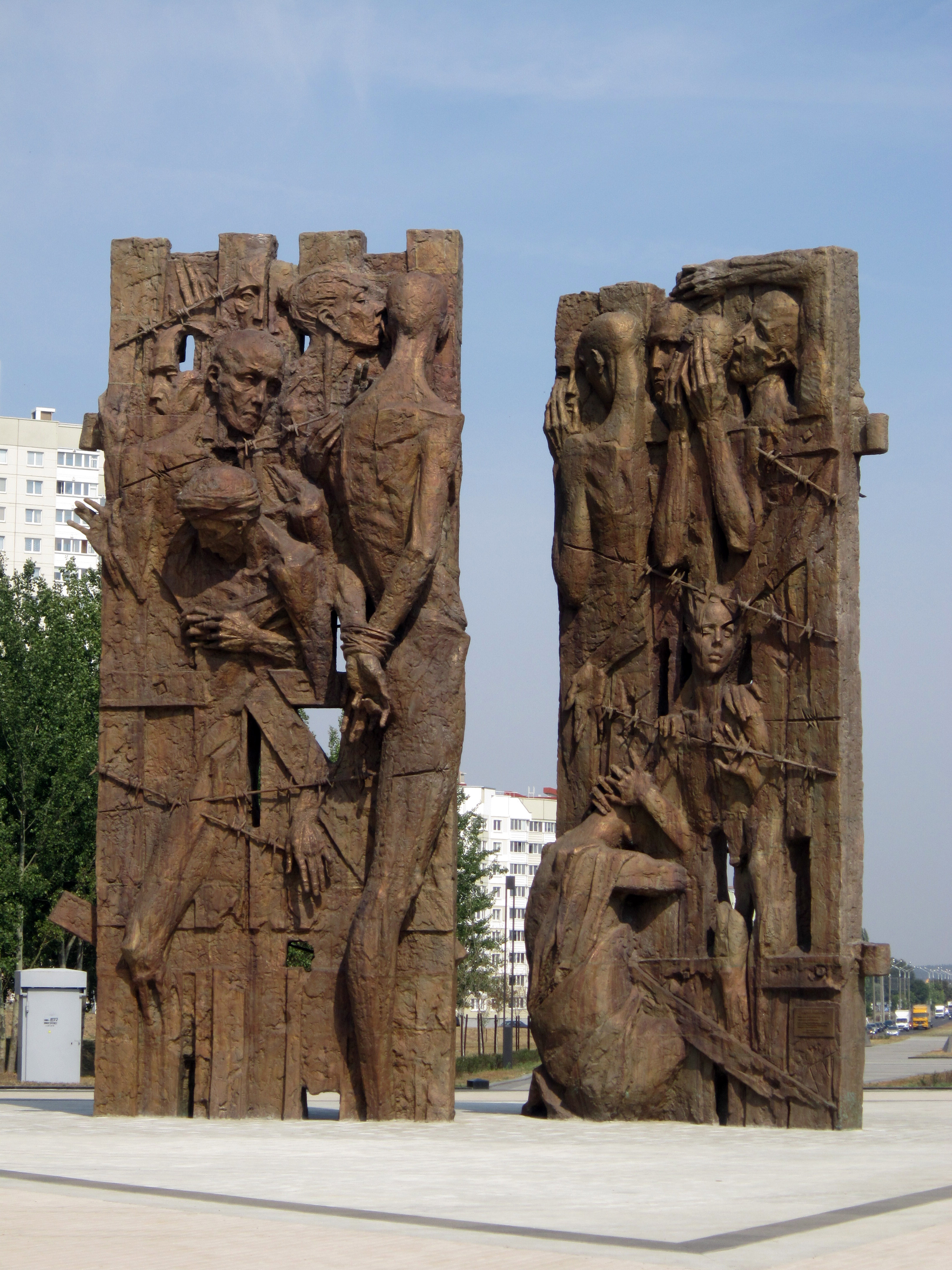 Trascianec (or Maly Trascianec or Maly Trostenets) memorial complex in Minsk, Belarus